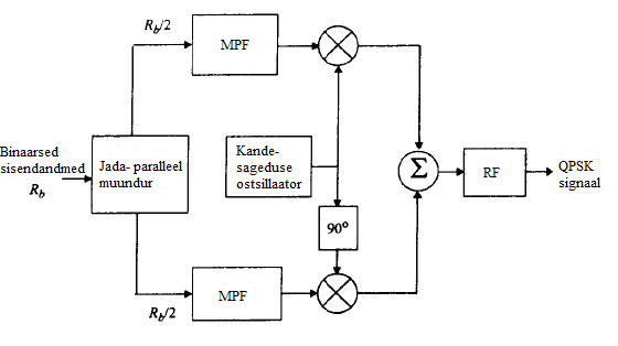 QPSK modulator block diagram